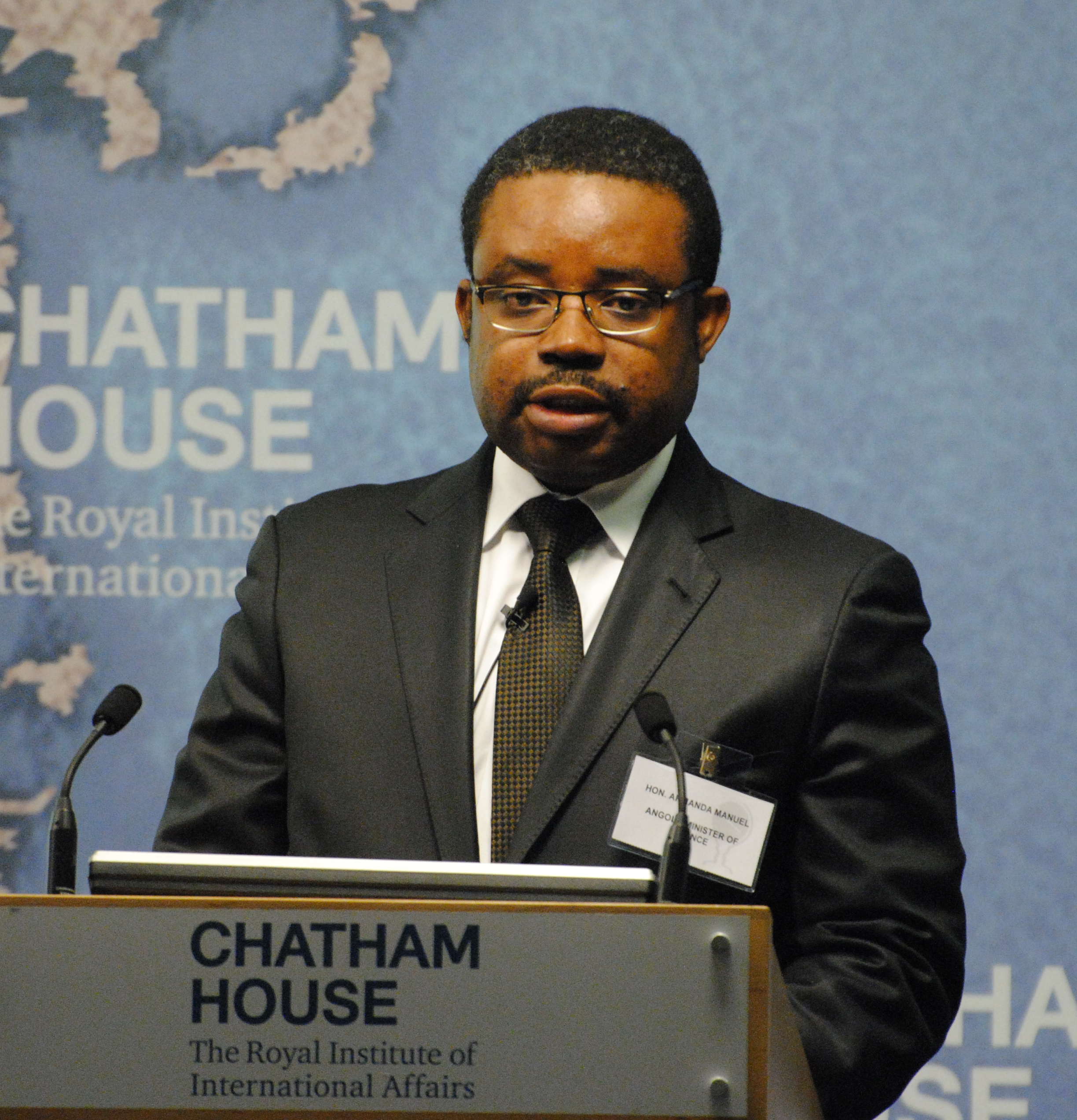 Governing for Infrastructure Delivery in Sub-Saharan Africa: Overcoming Challenges to Create Enabling Environments, 14-15 March 2016, cht.hm/1nRdldH